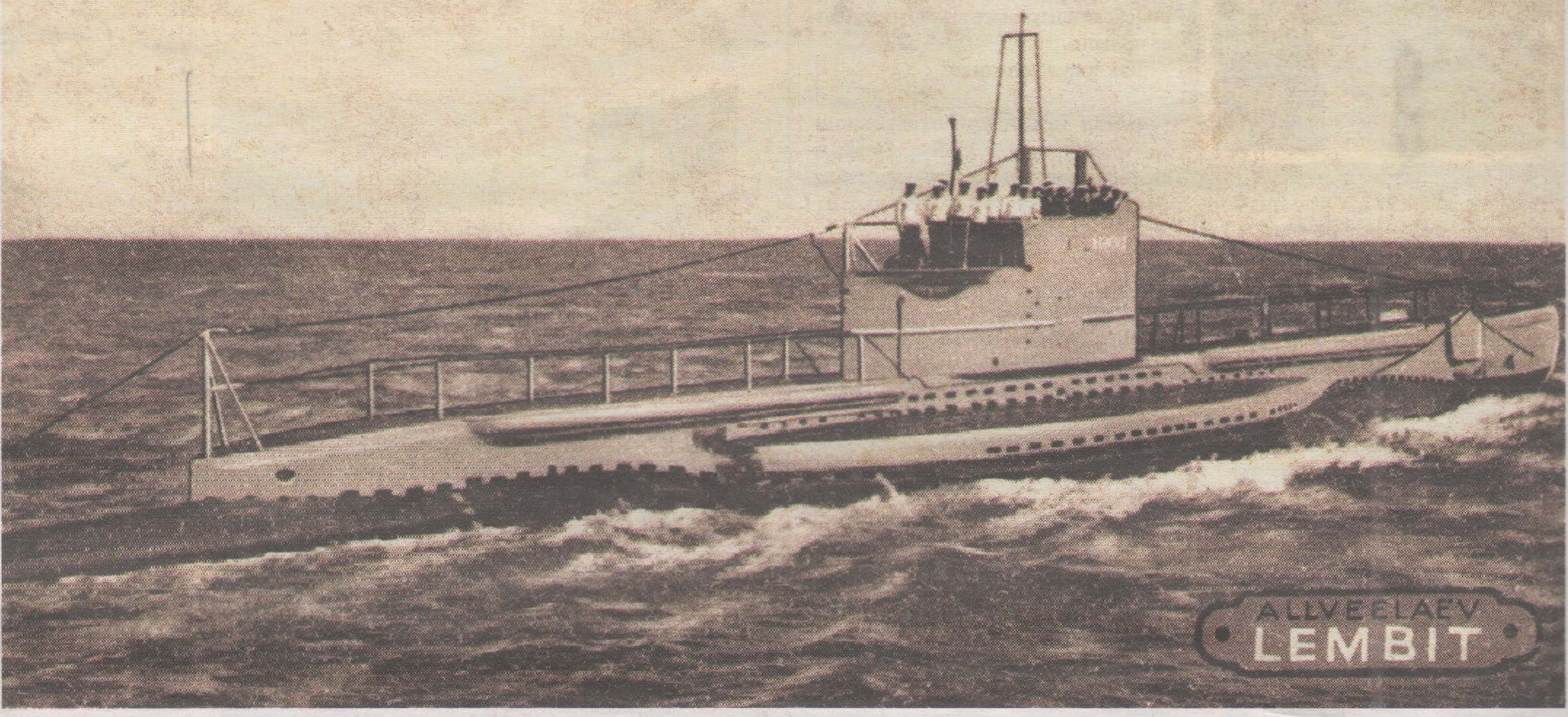 Stern quarter view of EML Lembit, world's oldest submarine afloat, underway while in service.